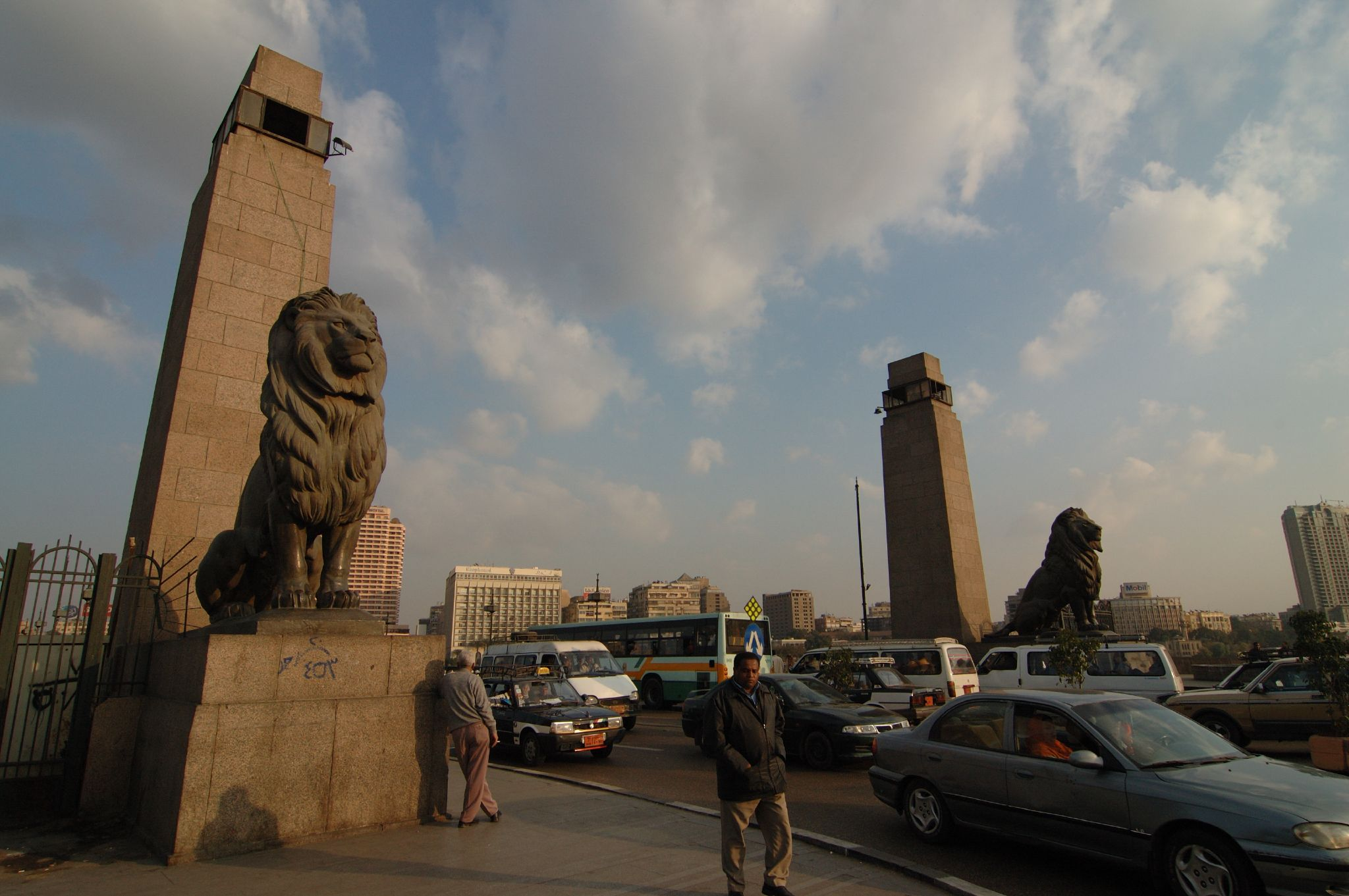 Qasr al-Nil bridge. The lions are sculptures by French artist Henri Alfred Marie Jacquemart, 1873.